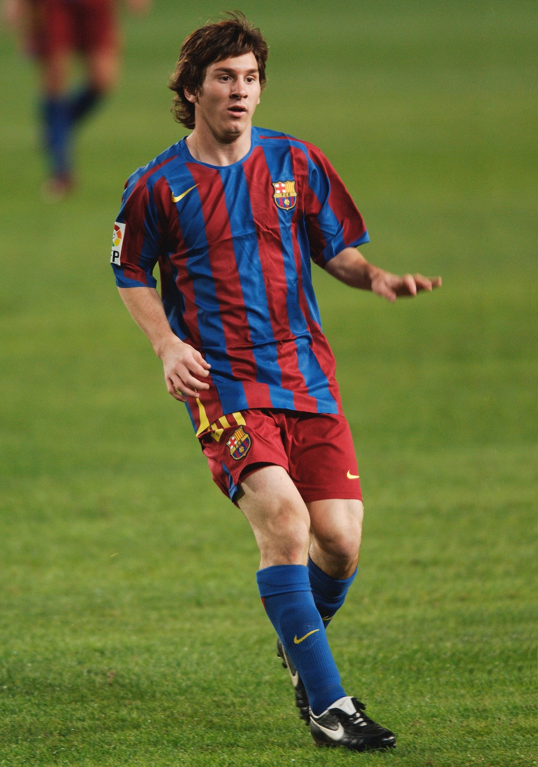 Leo Messi with FC Barcelona in the 2005-06 season against Málaga